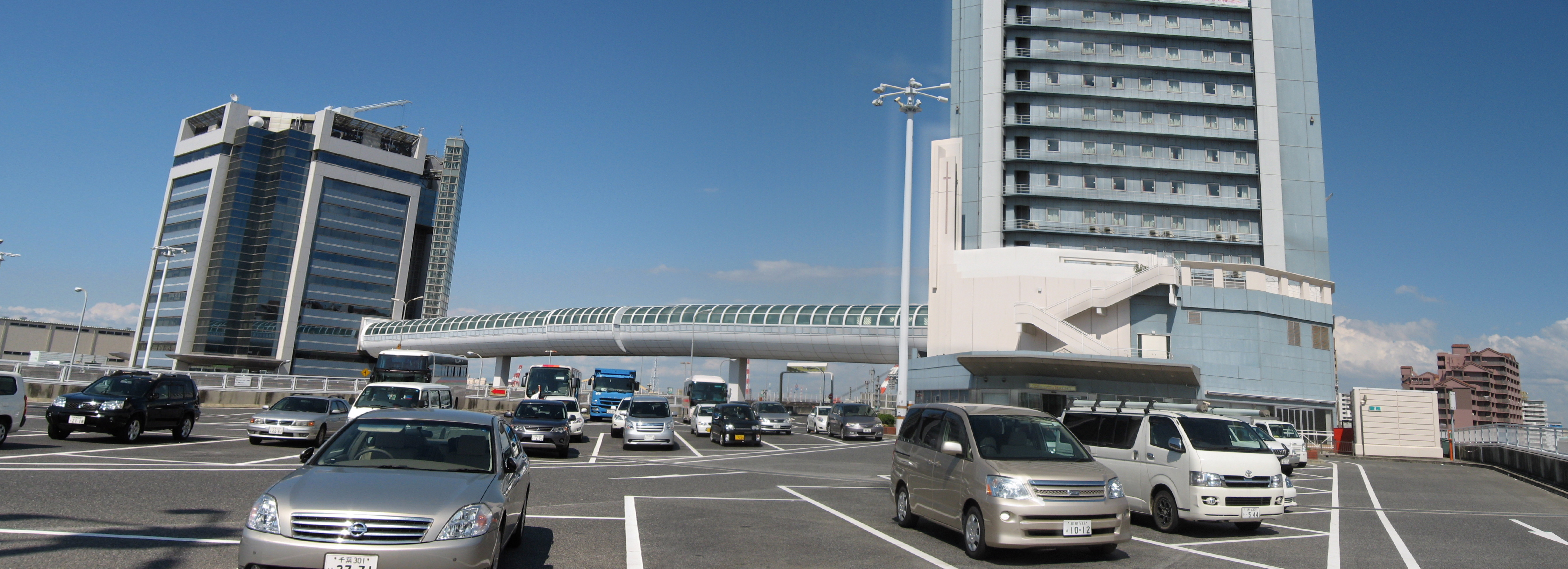 Izumi Otsu Parking Area in IzumiOtsu city in Osaka, Japan